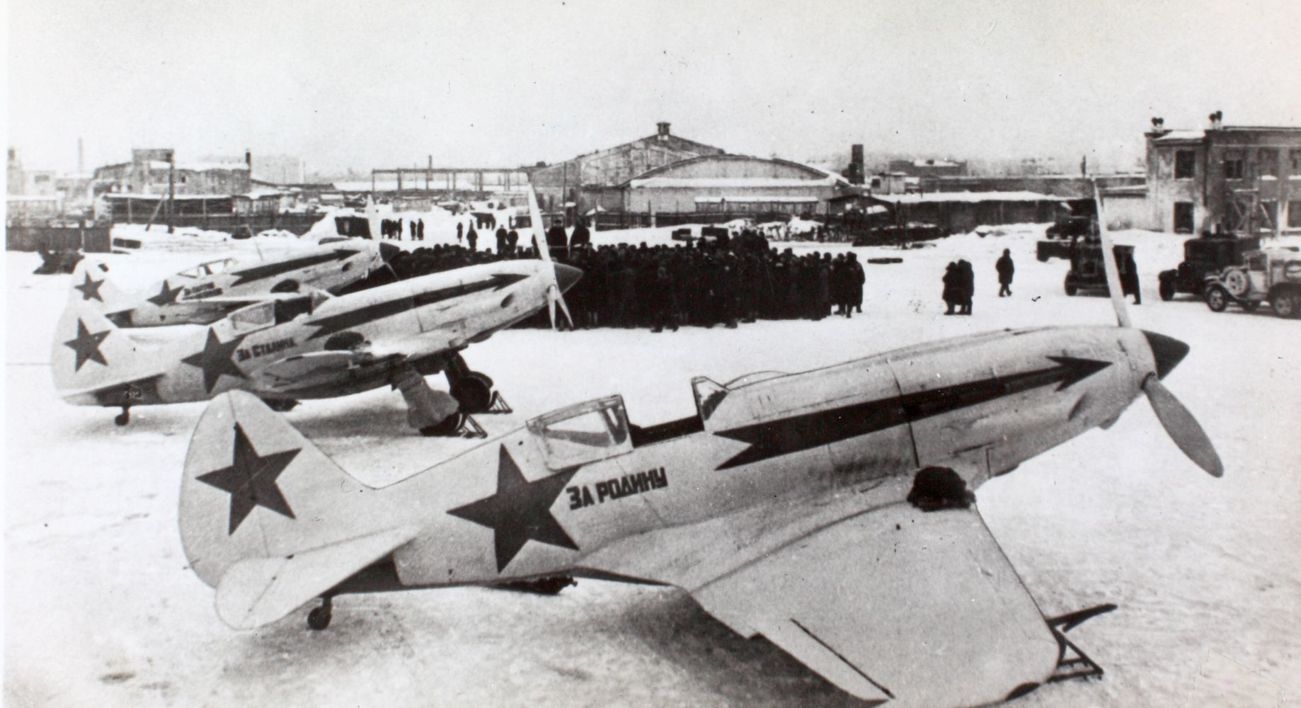 Catalog #: 15_002209 Title: Mig-3 Collection: Charles M. Daniels Collection Photo Album Name: Soviet Aircraft Page #: 3 Tags: Soviet Aircraft, Charles Daniels, PUBLIC COMMONS.SOURCE INSTITUTION: San Diego Air and Space Museum Archive